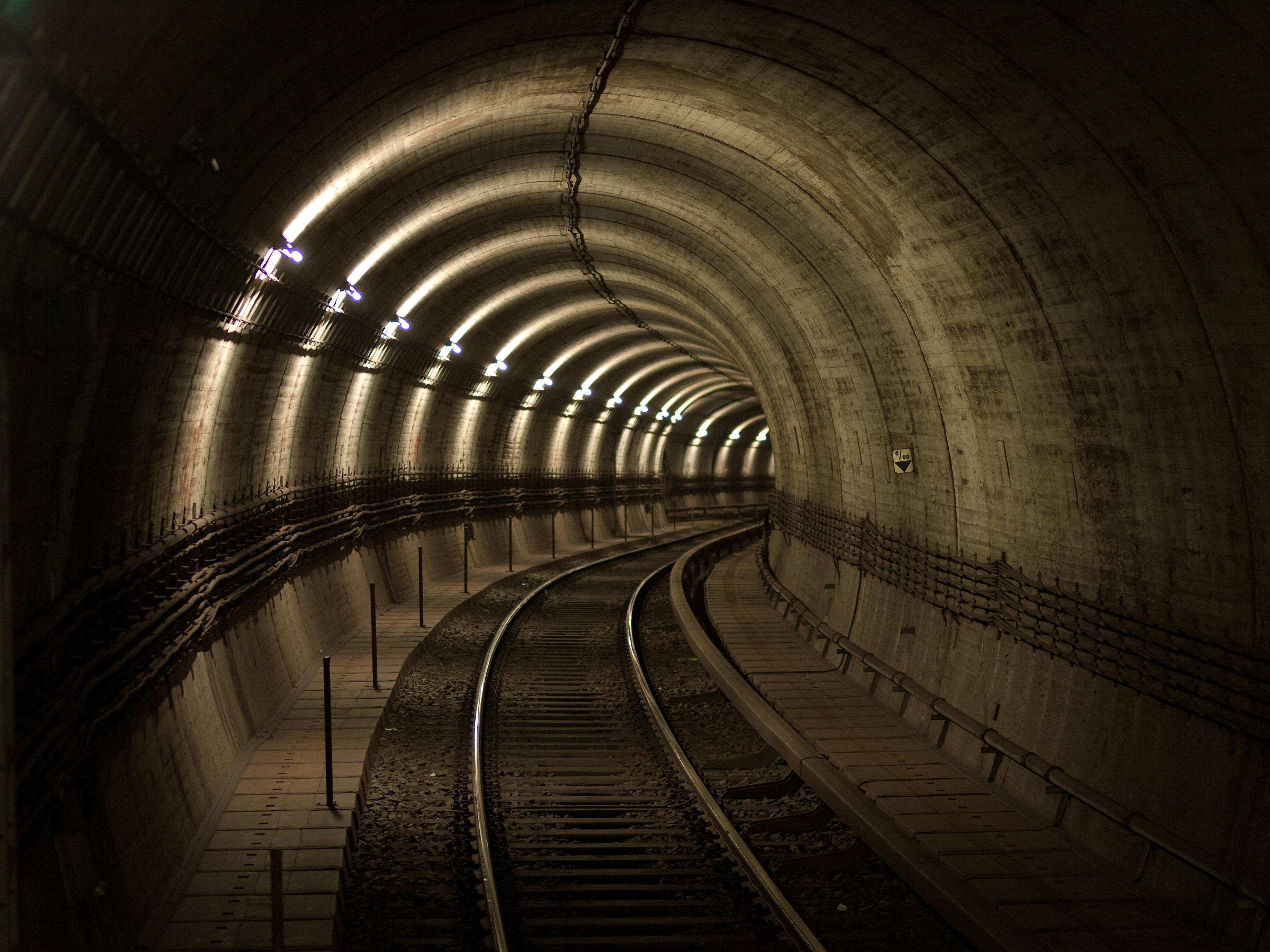 Picture taken in Munich/Bavaria